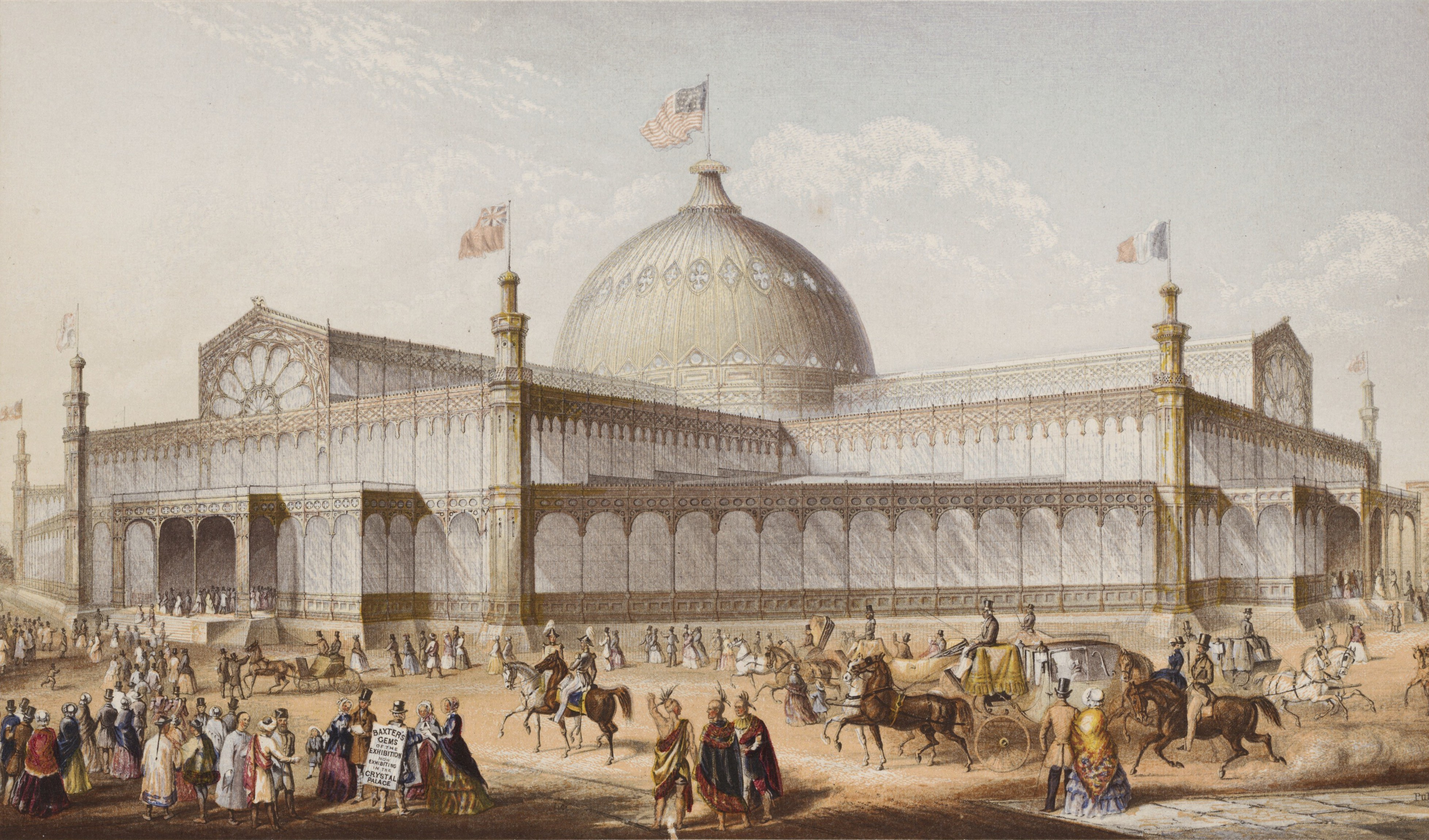 New York Crystal Palace, Frontispiece to New York Crystal Palace: illustrated description of the building by Geo. Carstensen & Chs. Gildemeister, architects of the building ; with an oil-color exterior view, and six large plates containing plans, elevations, sections, and details, from the working drawings of the architects (New York: Riker, Thorne & co., 1854) Die Abbildung ist ein Druck mit auf Ölfarbe basierende Tinte von George Baxter (1804 - 1867), London, datiert 1 September 1853. Authentisch durch den Mann, der eine Baxter Reklame-Tafel trägt.